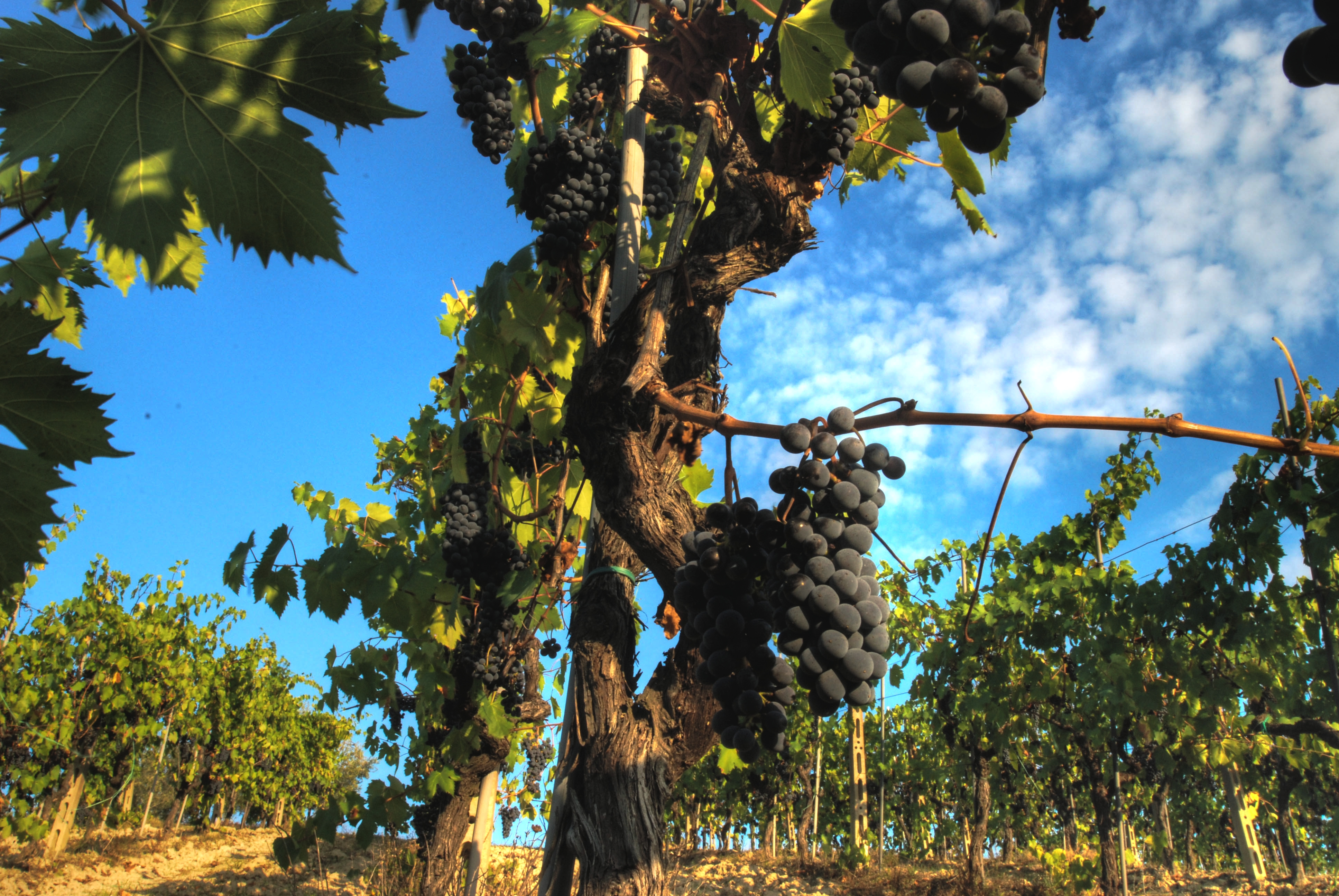 Sangiovese grapevine in the Chianti wine region of Tuscany